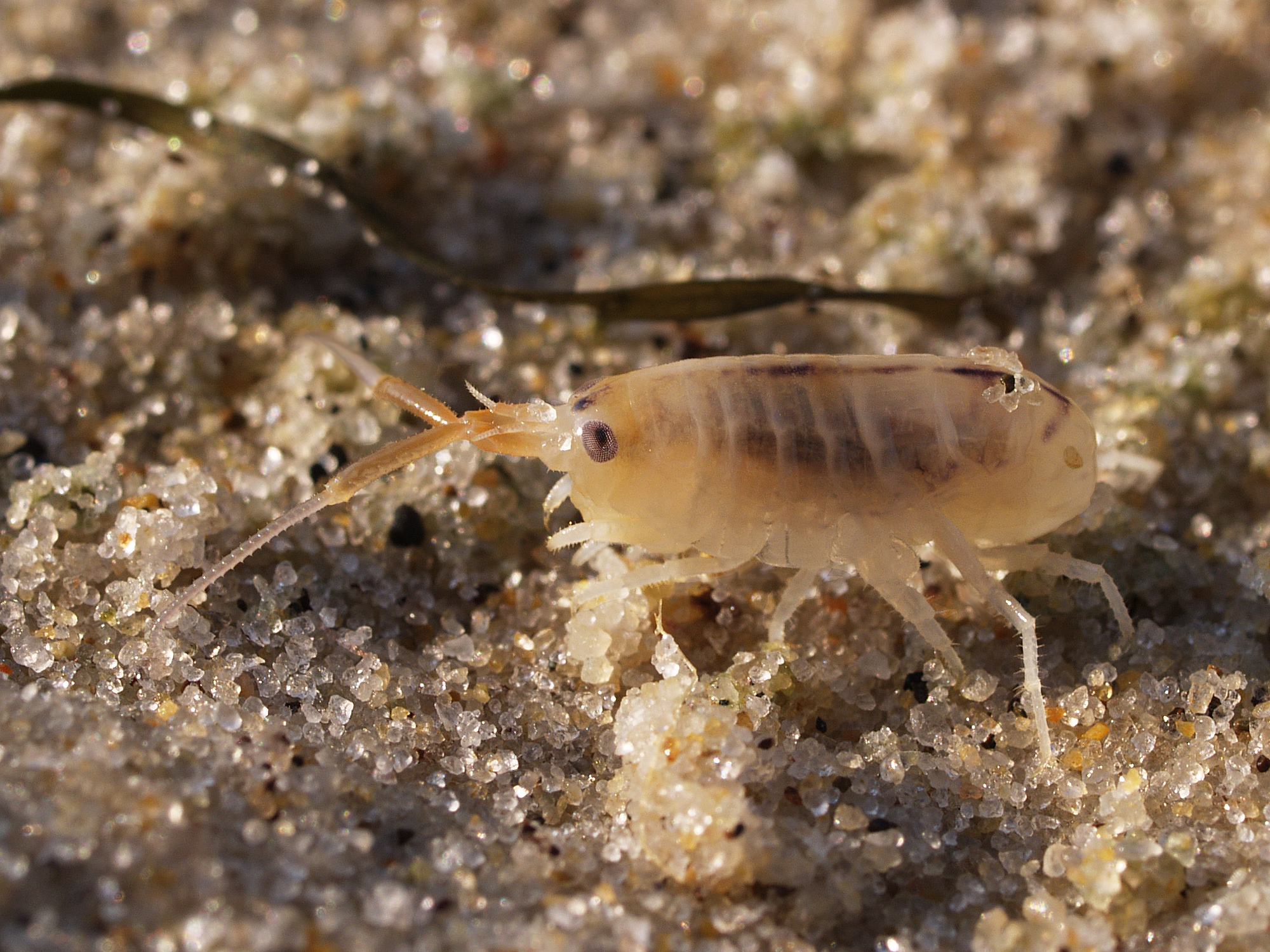 Talitrus saltator at the beach of Baltic Sea at Bornholm island